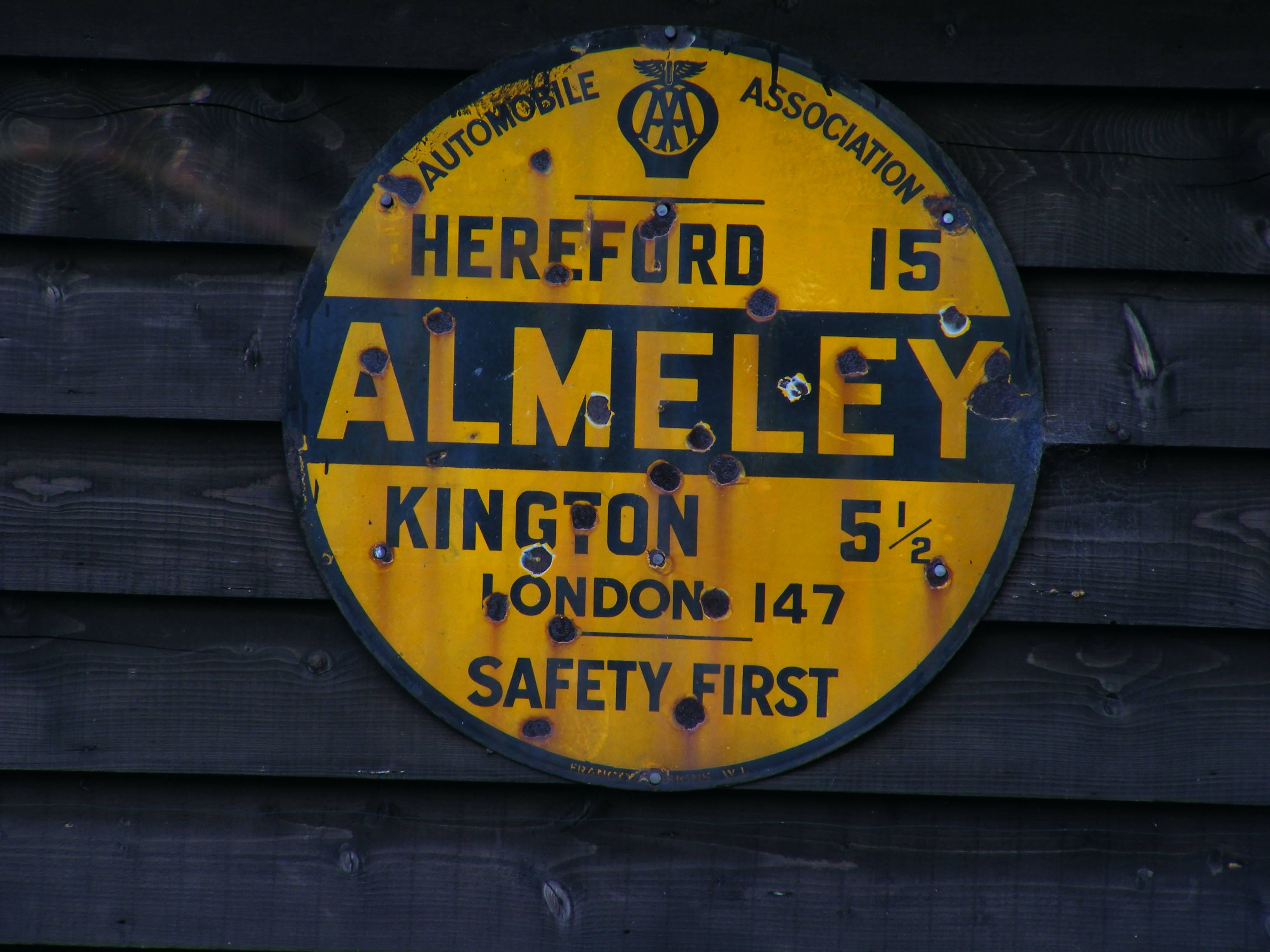 Almeley, Herefordshire, village sign by the AA showing village name and distances to London and other nearby towns.